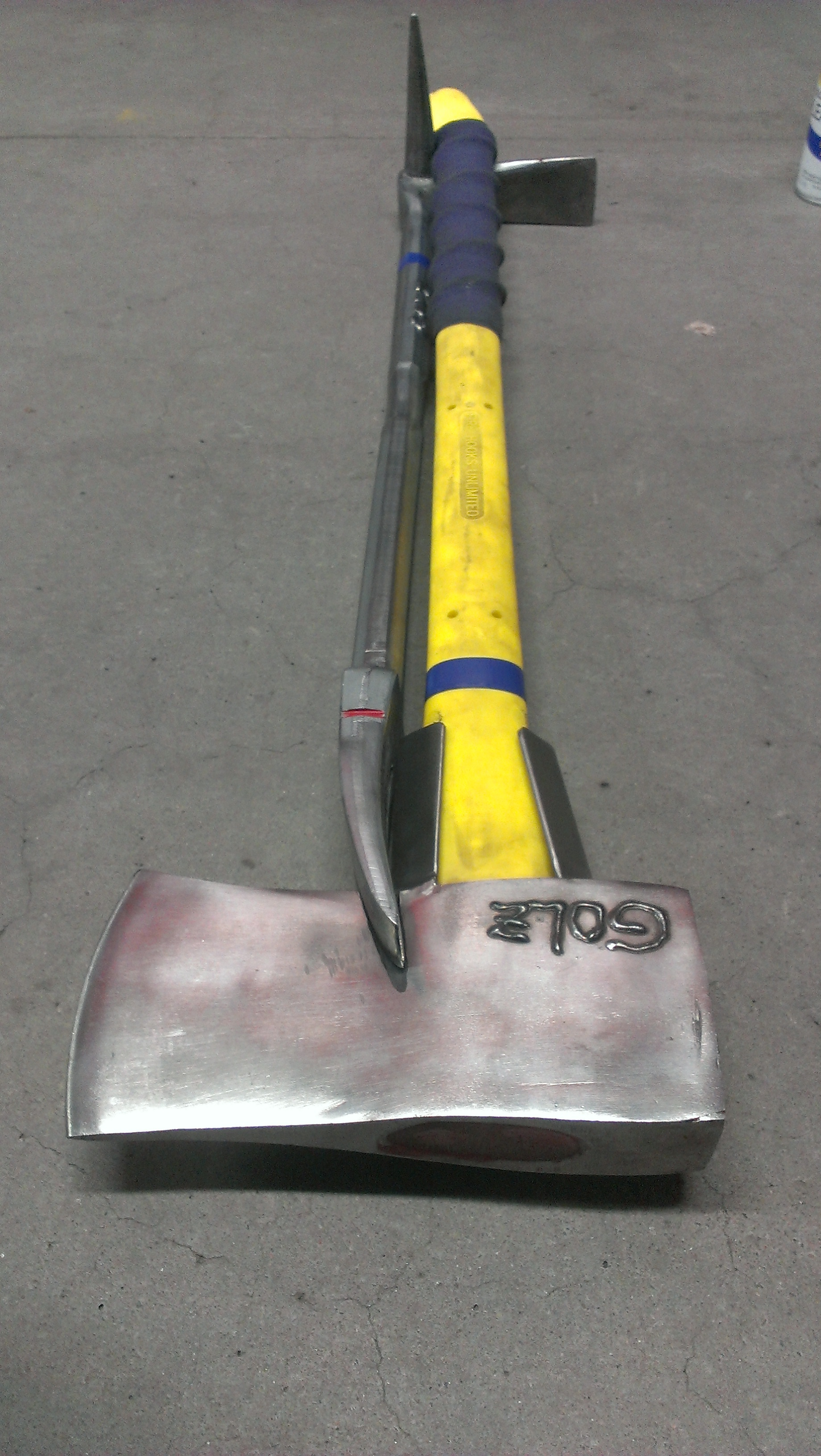 Halligan and flat head axe, together known as "The Irons"